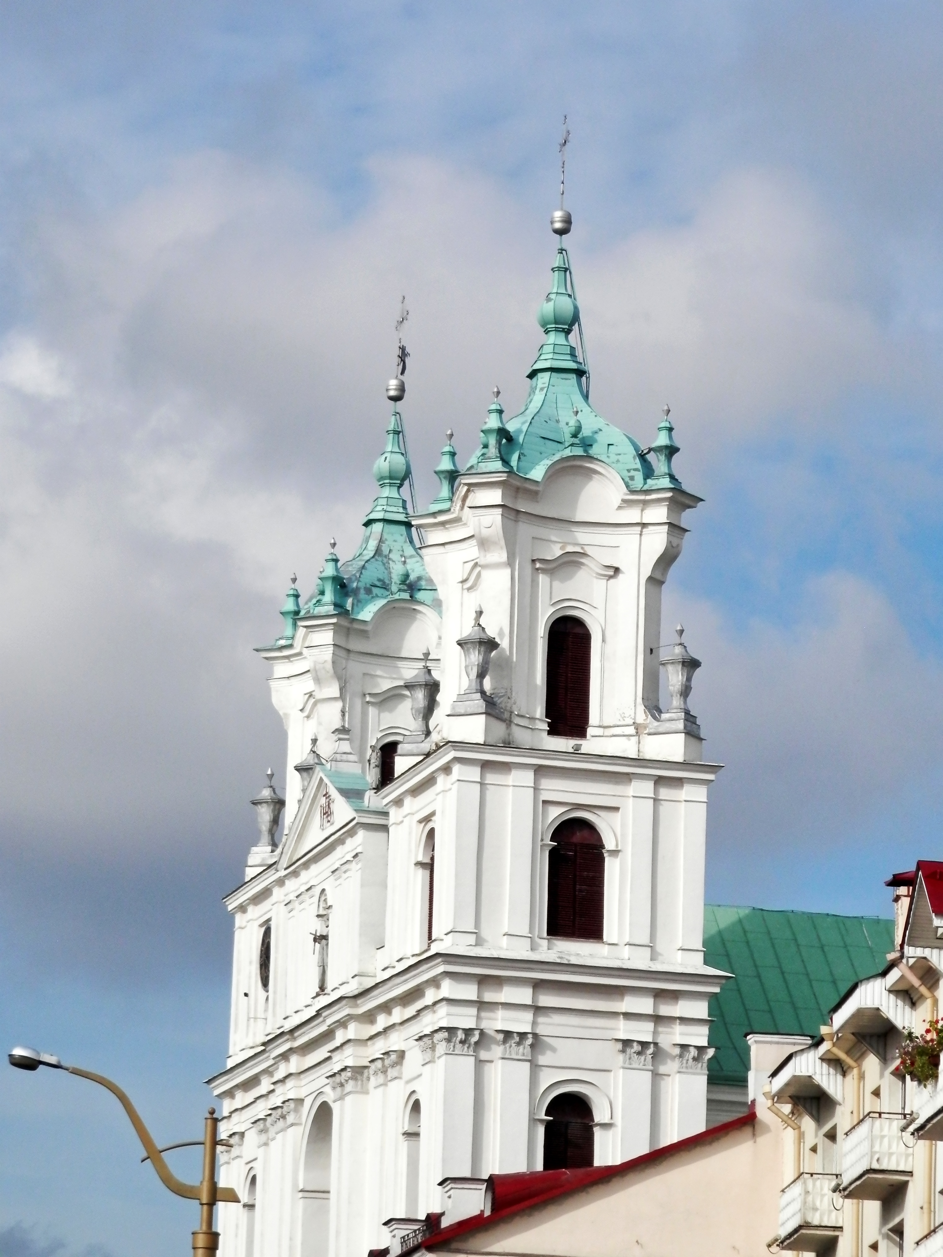 St. Francis Xavier Cathedral, Grodno